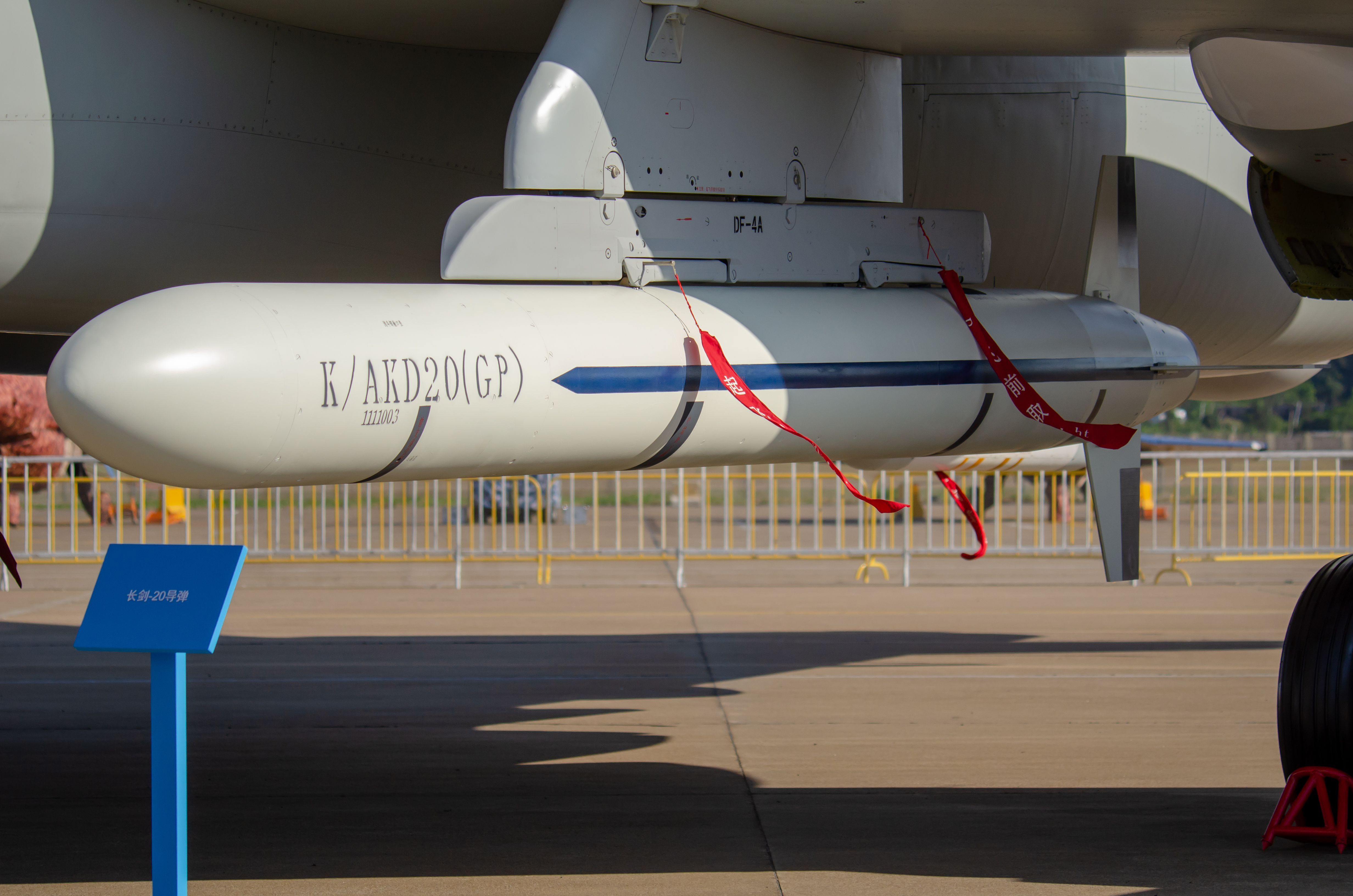 CJ-20(长剑-20) cruise missiles mounted on H-6K at ZhuHai Air Show 2018